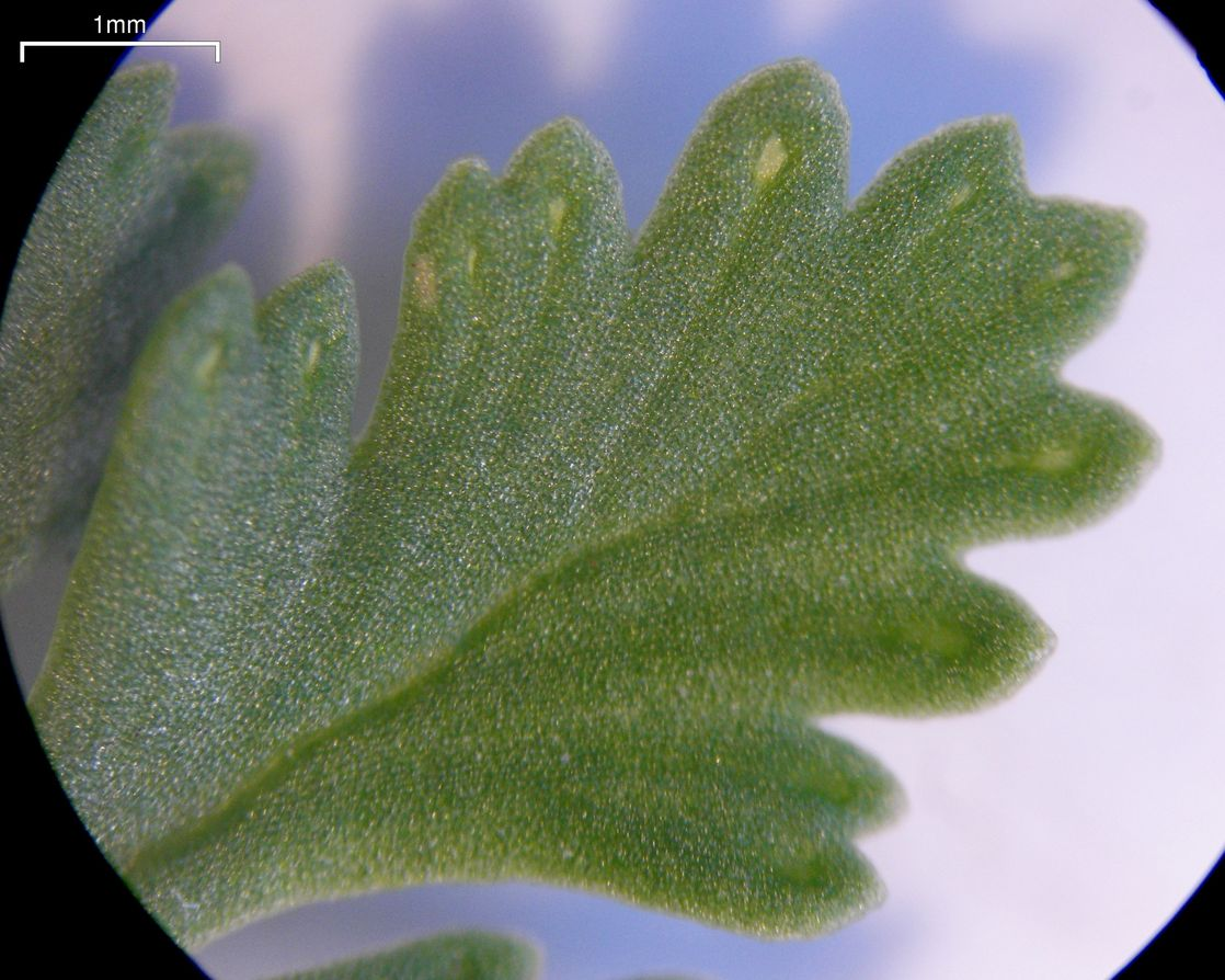 Cryptograma acrostichoides R. Br. 20090616.11 Wells Gray Park, BC This extreme close-up (30x) shows the hydathodes at the end of the veins. Notice how the veins terminate back from the margins somewhat.